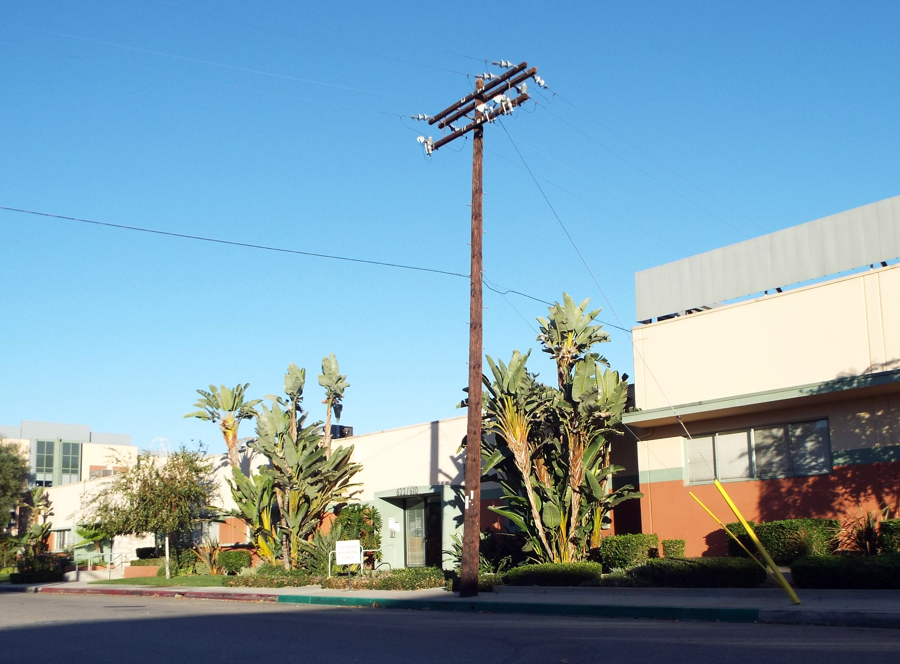 622/610 Circle 7 Drive, Glendale, California, which is also known as the Hart-Dannon Building (it began as two separate buildings that were later conjoined). Several films of the Disney Renaissance were produced in this building. Photographed by user Coolcaesar on 5 October 2014.